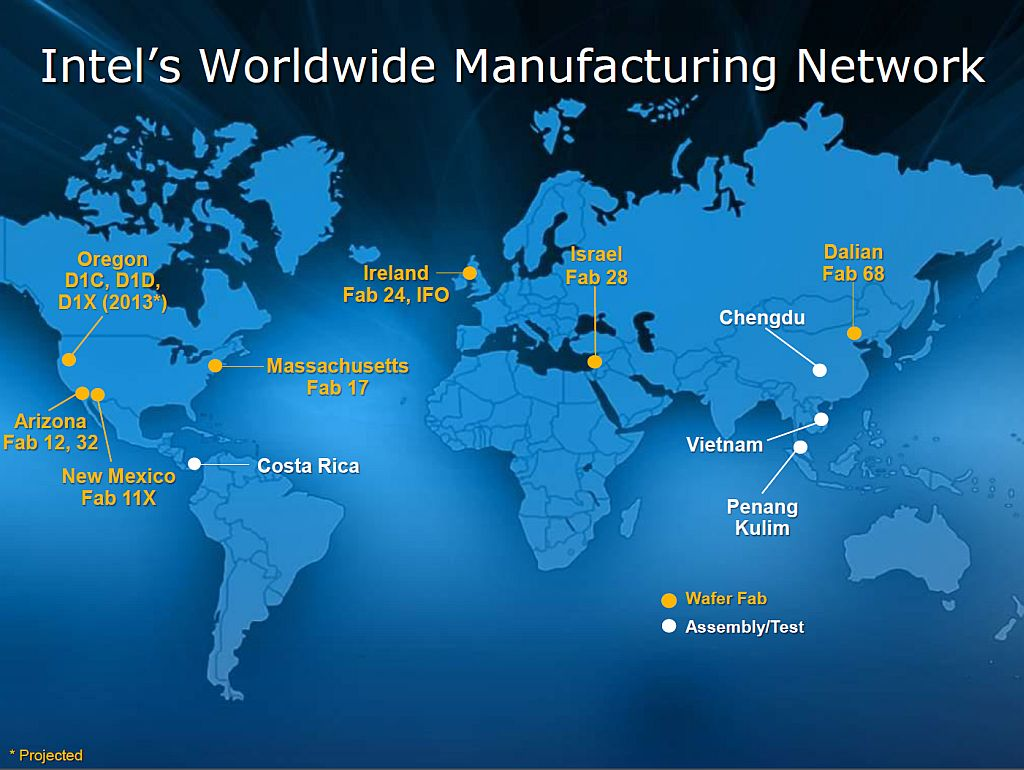 Intel Worldwide Manufacturing Network